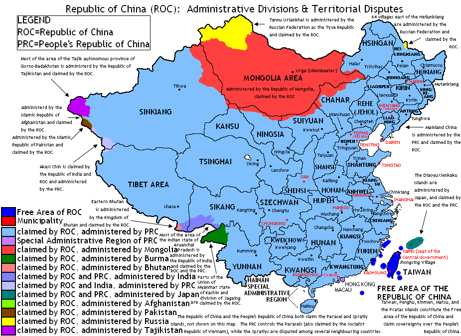 Map of the Republic of China, showing administrative divisions and territorial disputes.